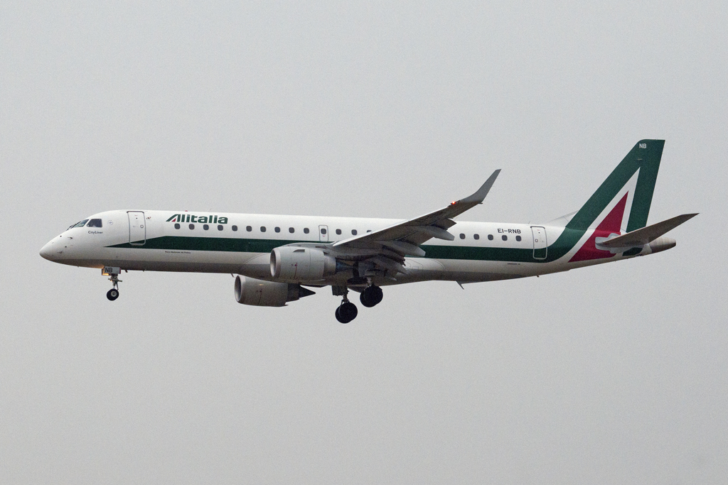 Nice new small Alitalia flight. Embraer ERJ-190-100STD Amsterdam - schiphol [AMS / EHAM] 03-03-2012